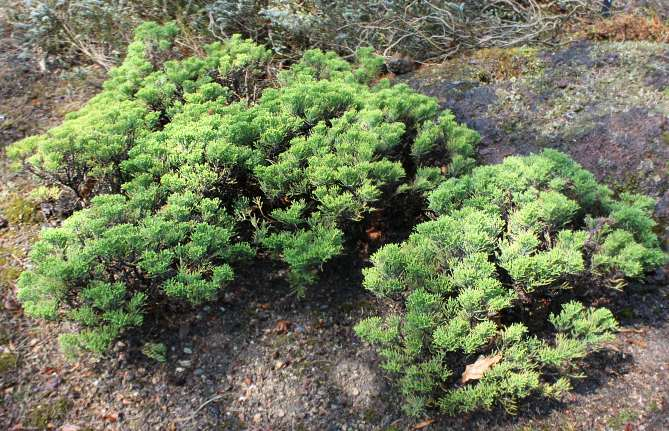 Juniperus, Brno, CZ Česky: Juniperus Brno, CZ